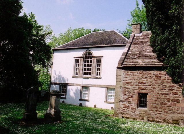 Innerpeffray Library A library was established in the adjoining 16th century Collegiate Chapel of St Mary and the contents moved to this handsome building in 1762. The library welcomes visitors and under the aegis of Historic Scotland the Chapel also welcomes visitors.